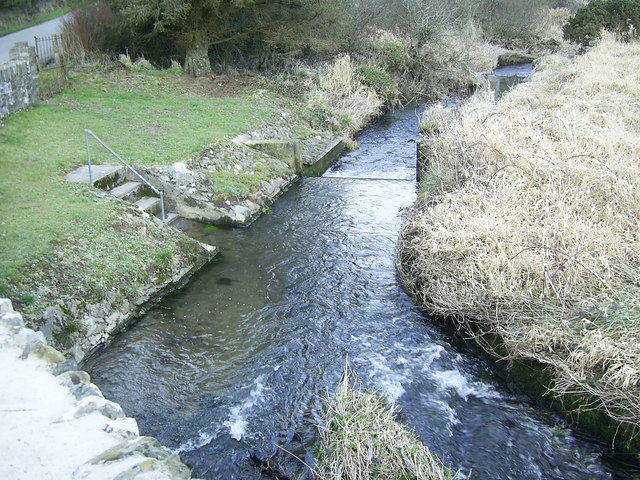 Open Air Baptismal Pool, Llangloffan There is no baptismal pool in Llangloffan Baptist Chapel. Baptisms take place in the open air using the river by Pont Llangloffan. The minister would walk down the steps to perform the baptisms in the river.